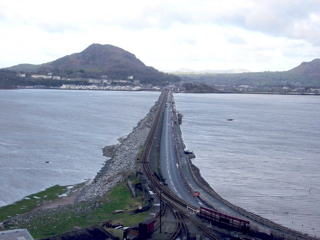 View from Boston Lodge towards Porthmadog at high tide.